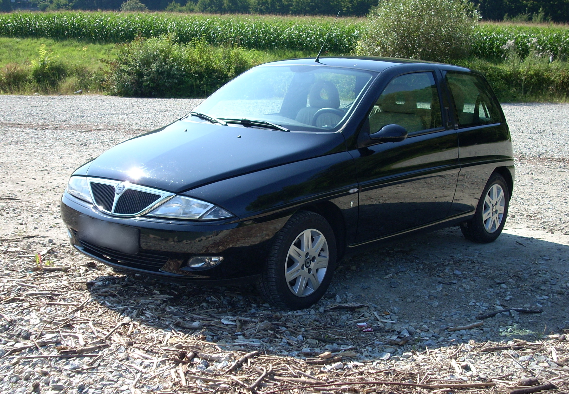 Lancia Y Cosmopolitan